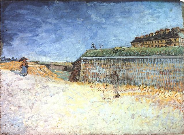 The Fortifications of Paris with Houses (also The Ramparts of Paris) (f 1403) (1887) by Vincent van Gogh.